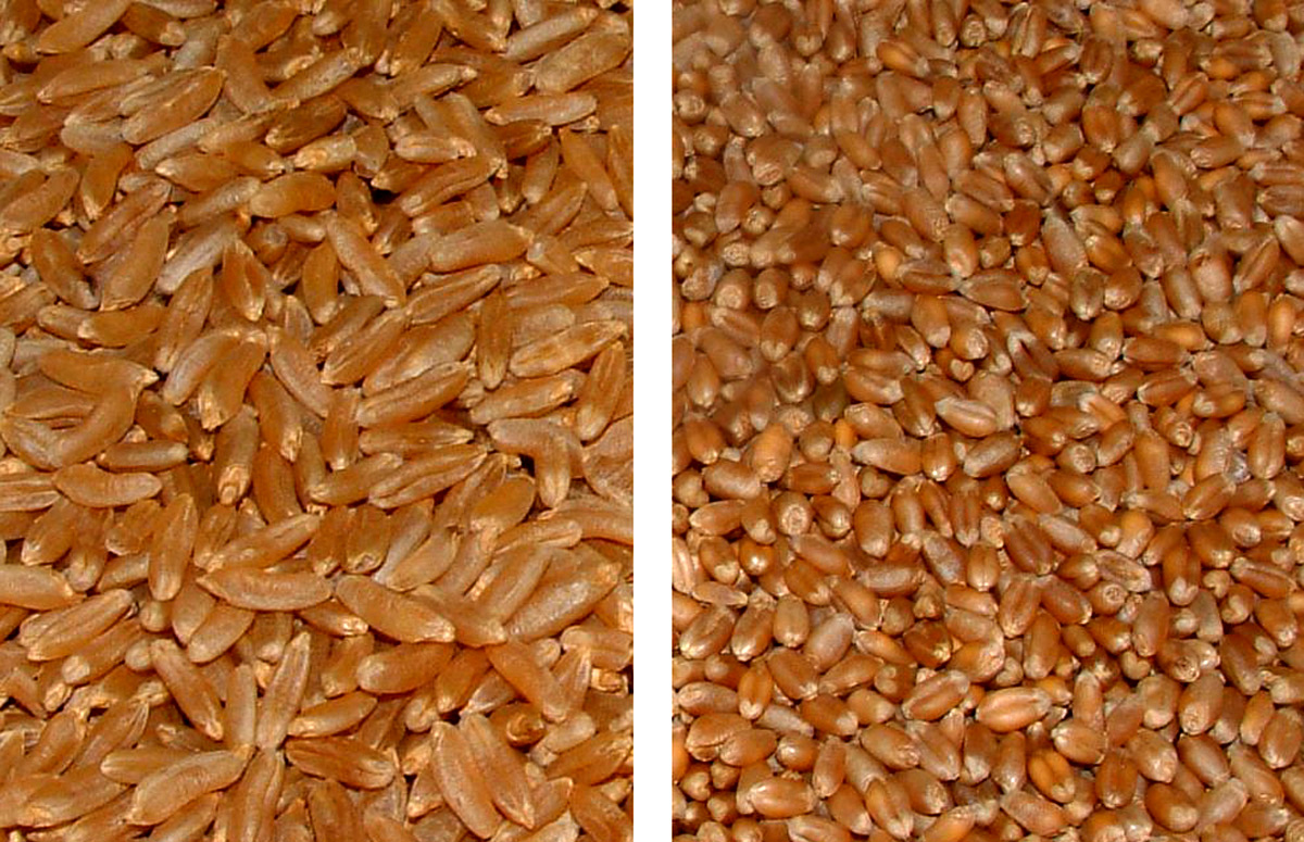 Comparison left: Khorasan wheat right: Soft wheat